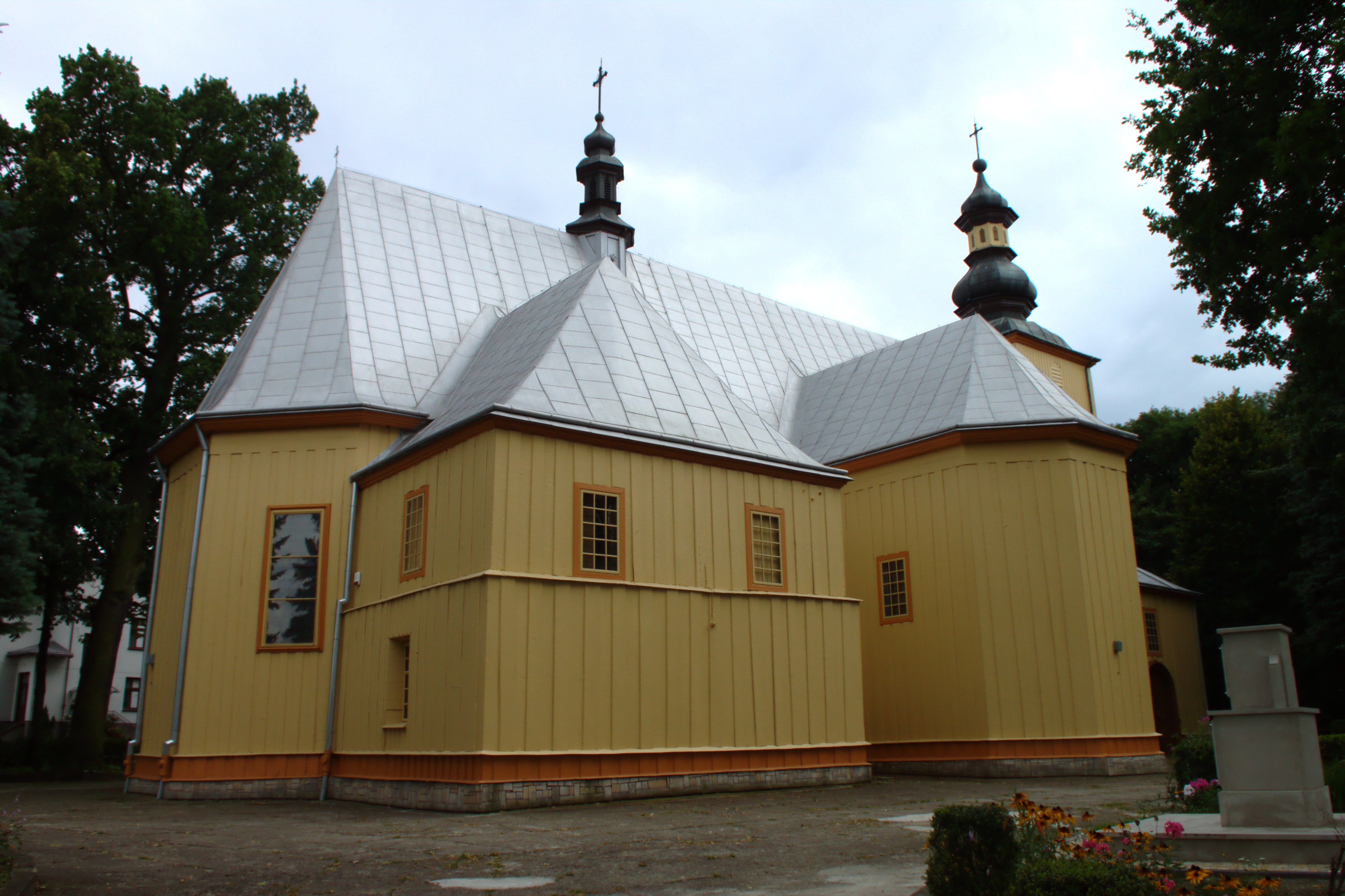 Wooden church of all saints in Iwonicz, Podkarpackie voivodeship, Poland